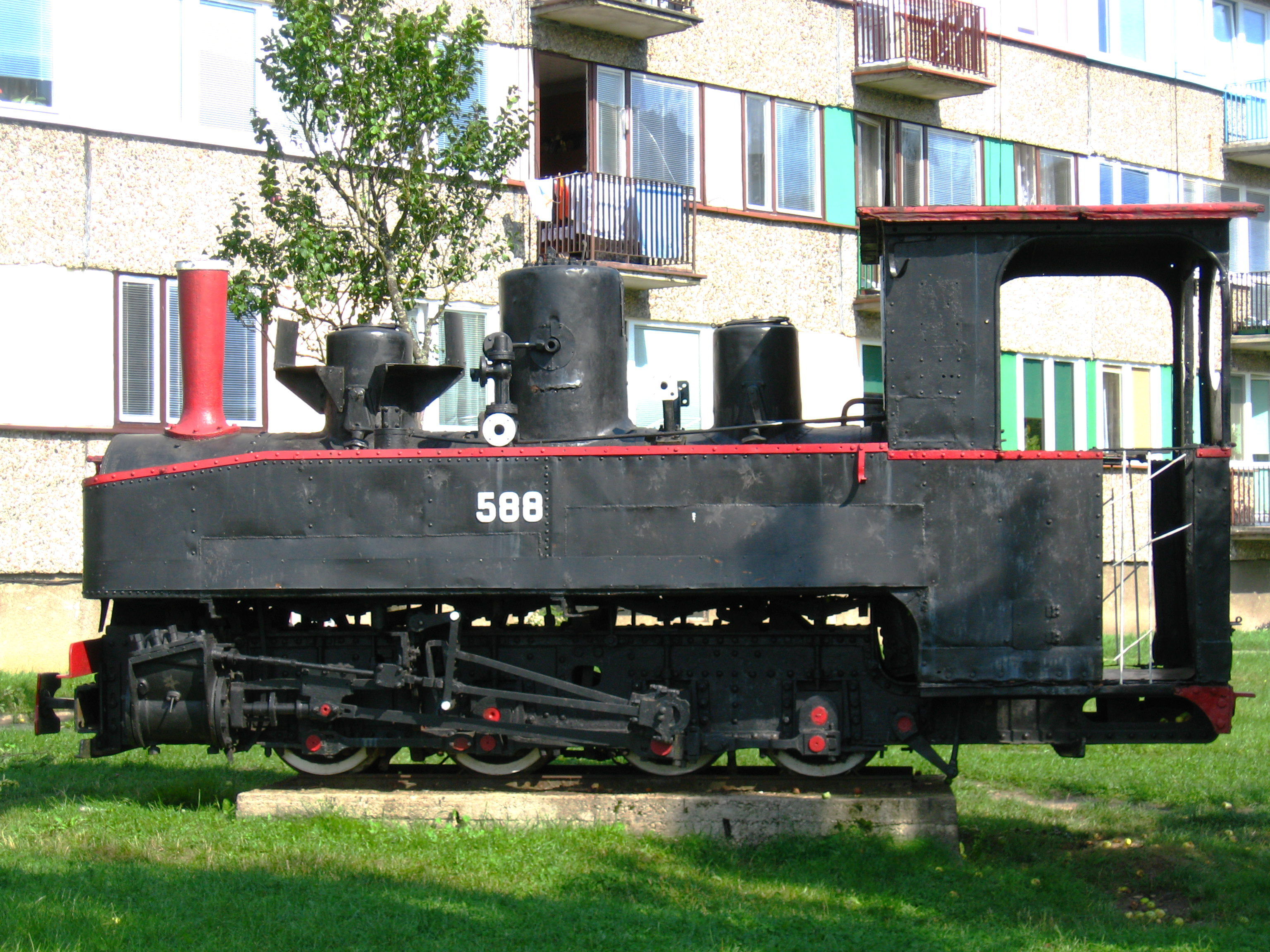 Knyszyn Forest narrow gauge railroad Brigadelok Dn2t locomotive